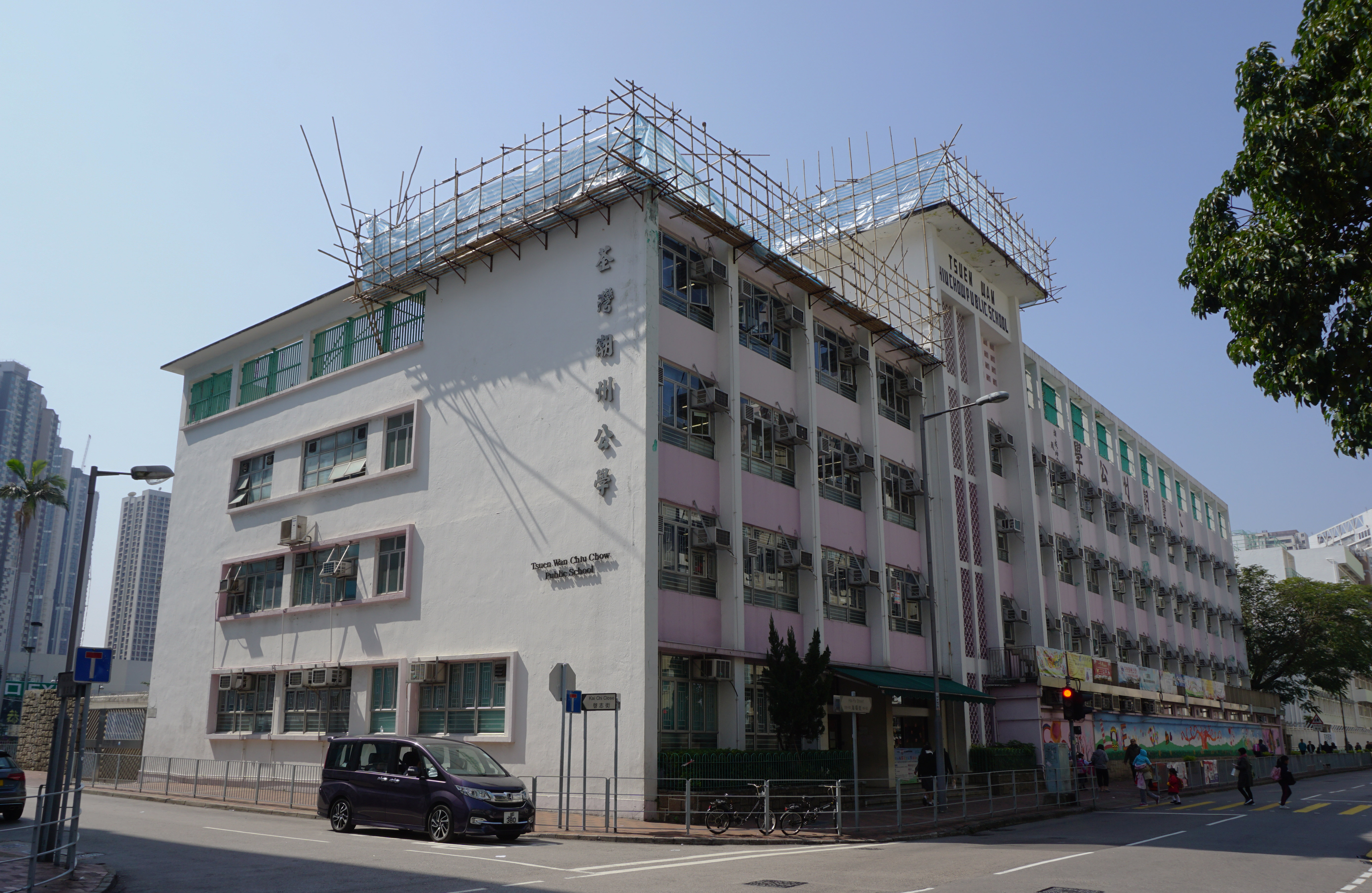 Chiu Chow Public School in Tsuen Wan, Hong Kong.